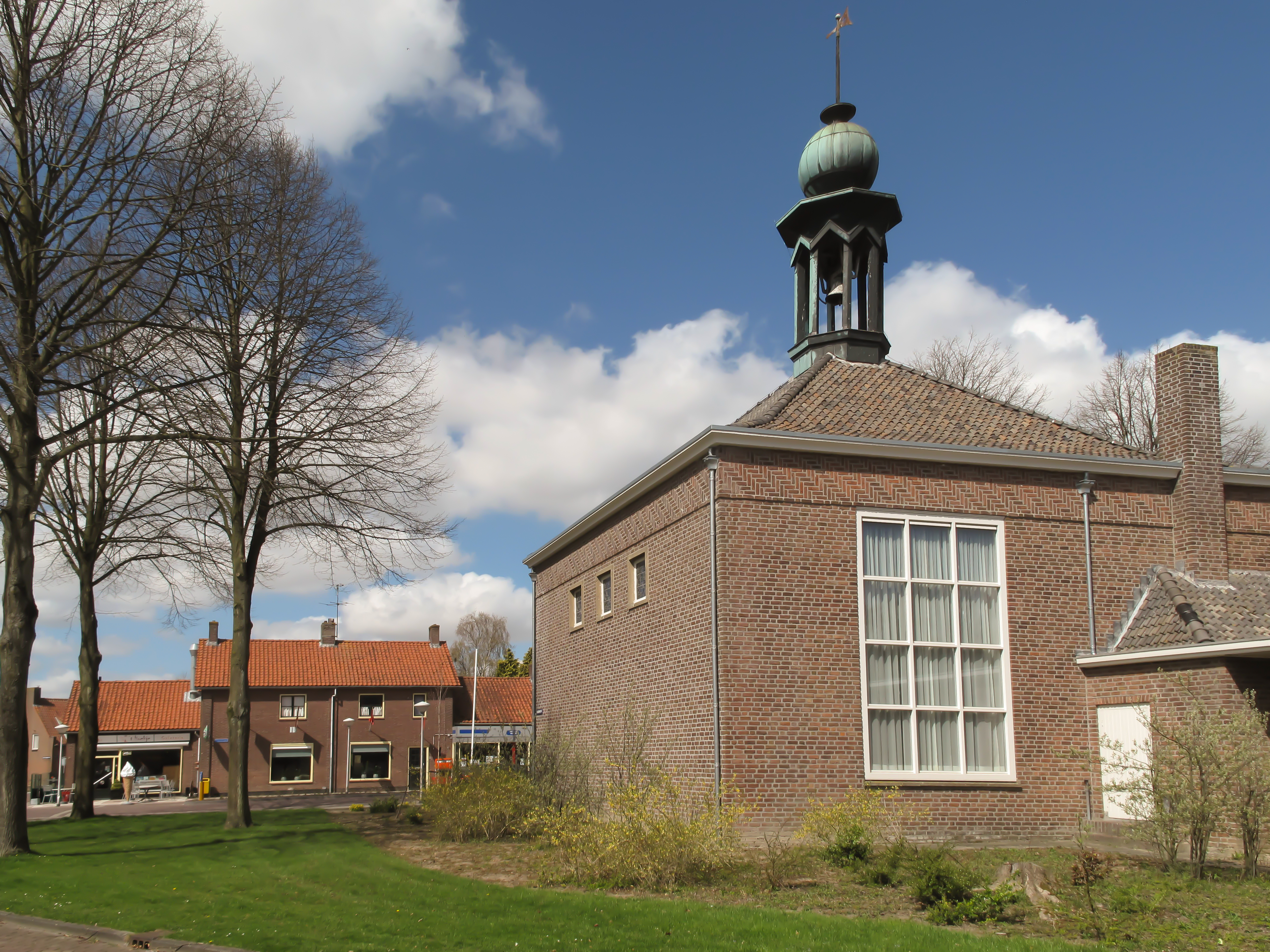 Kraggenburg, reformed church